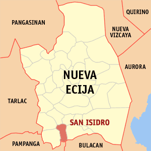 Map of Nueva Ecija showing the location of San Isidro